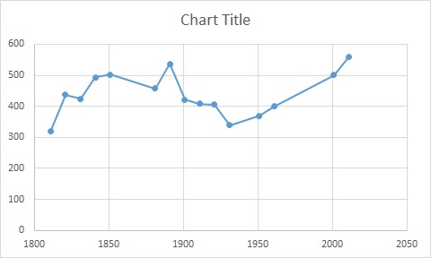 Total population of Peldon, Essex, as reported by the Census of Population from 1881 to 2011